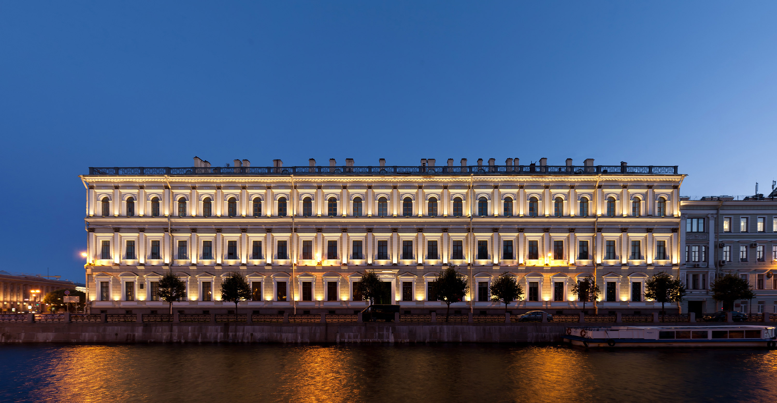 ministry of government properties